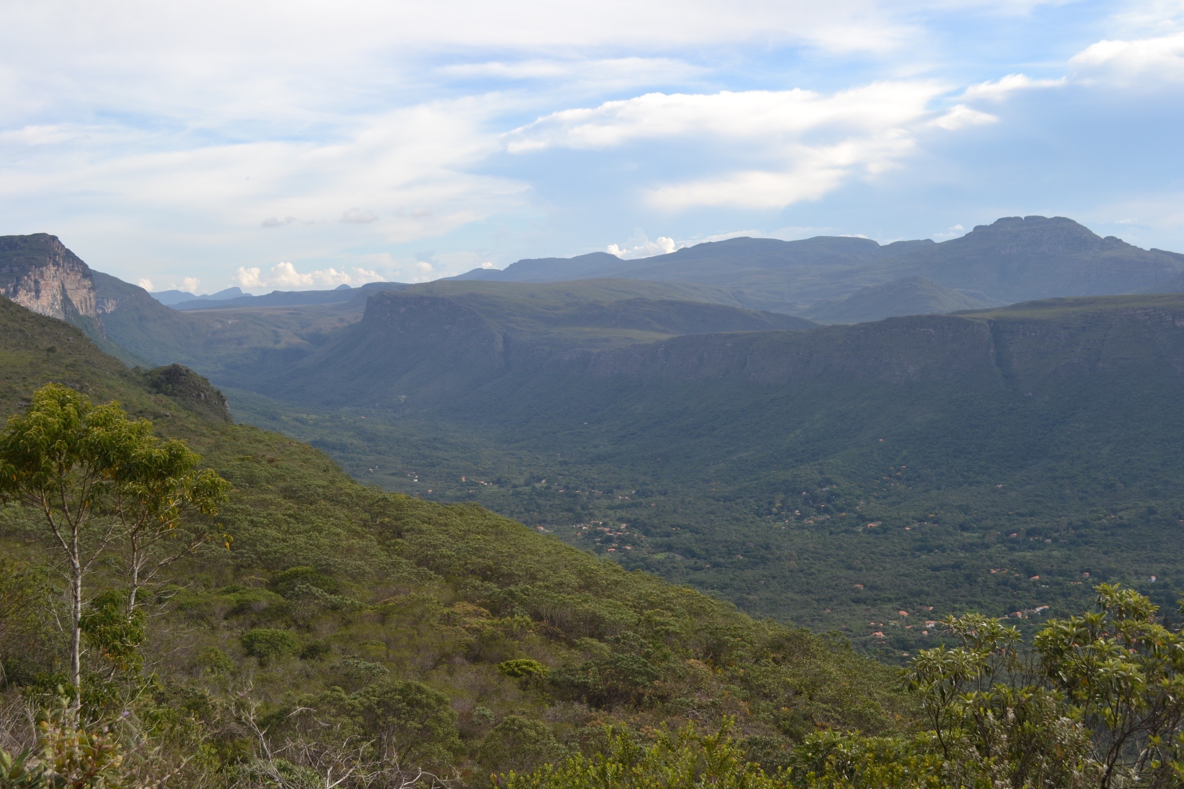 Landscape captured at the Chapada Diamantina in Bahia showing the mountains where campo rupestre areas can be found.